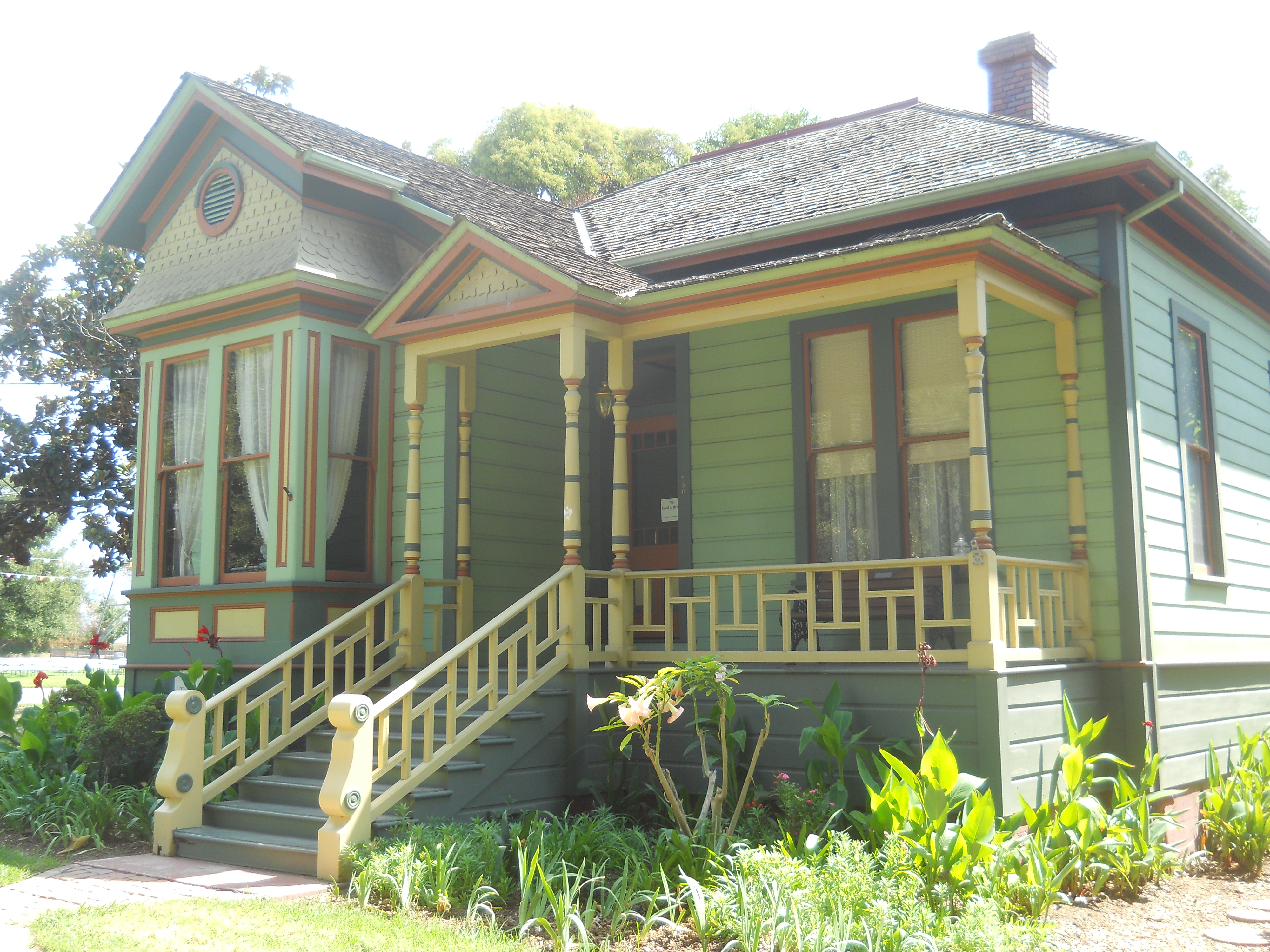 Andrew Putnam Hill's house, formerly at 1350 Sherman Street, San Jose, California, moved to History Park